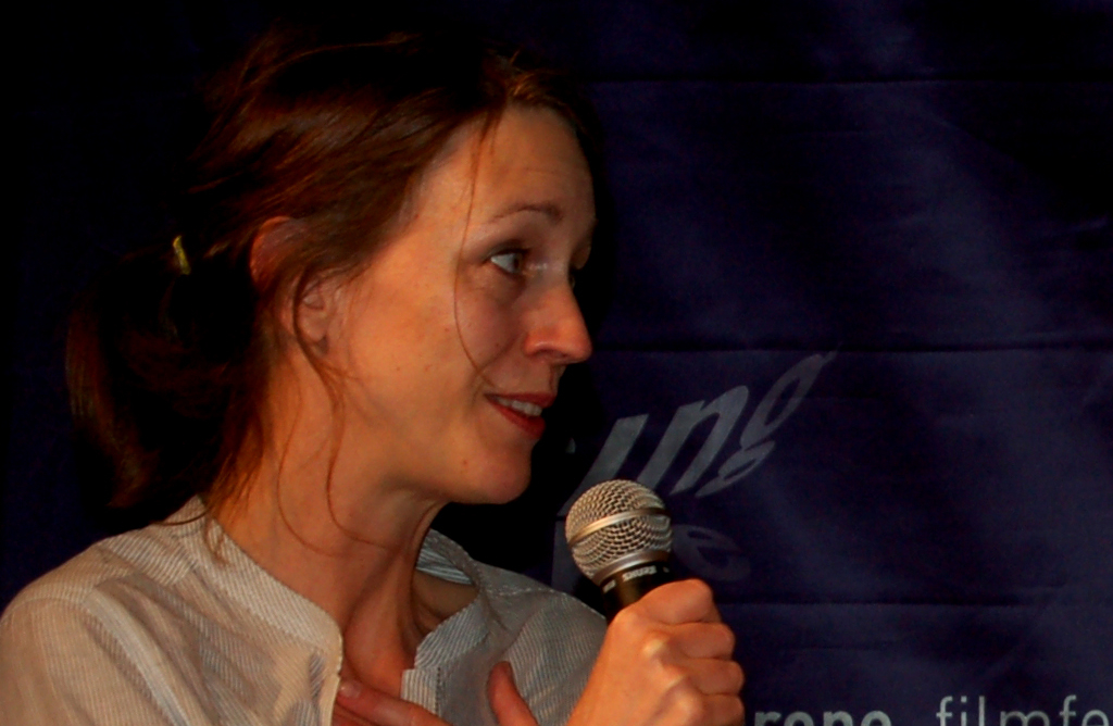 Pia Marais.